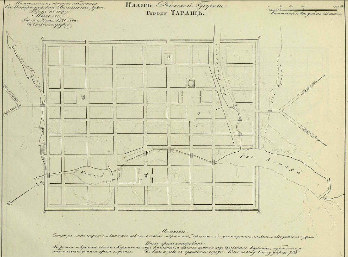 Plan of the ancient Ukrainian city Tarascha, 1826.